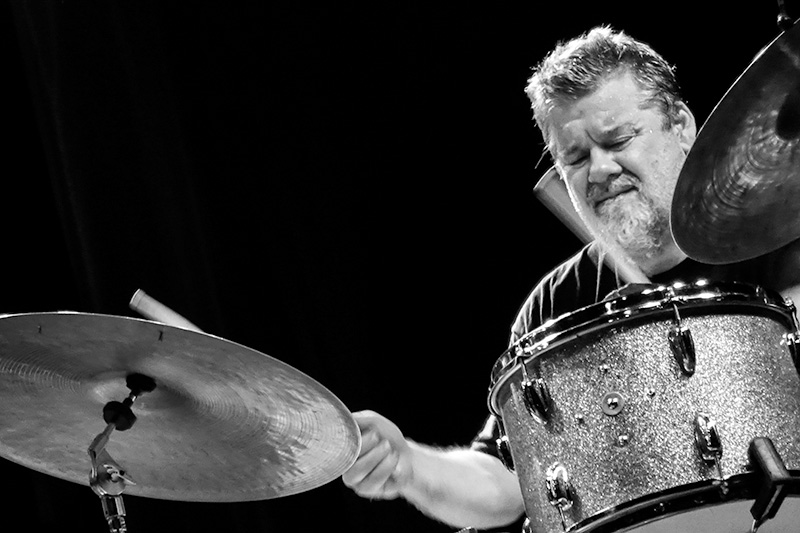 Raymond Strid in Aarhus, Denmark (2016). Playing with Mette Rasmussens Quintet.